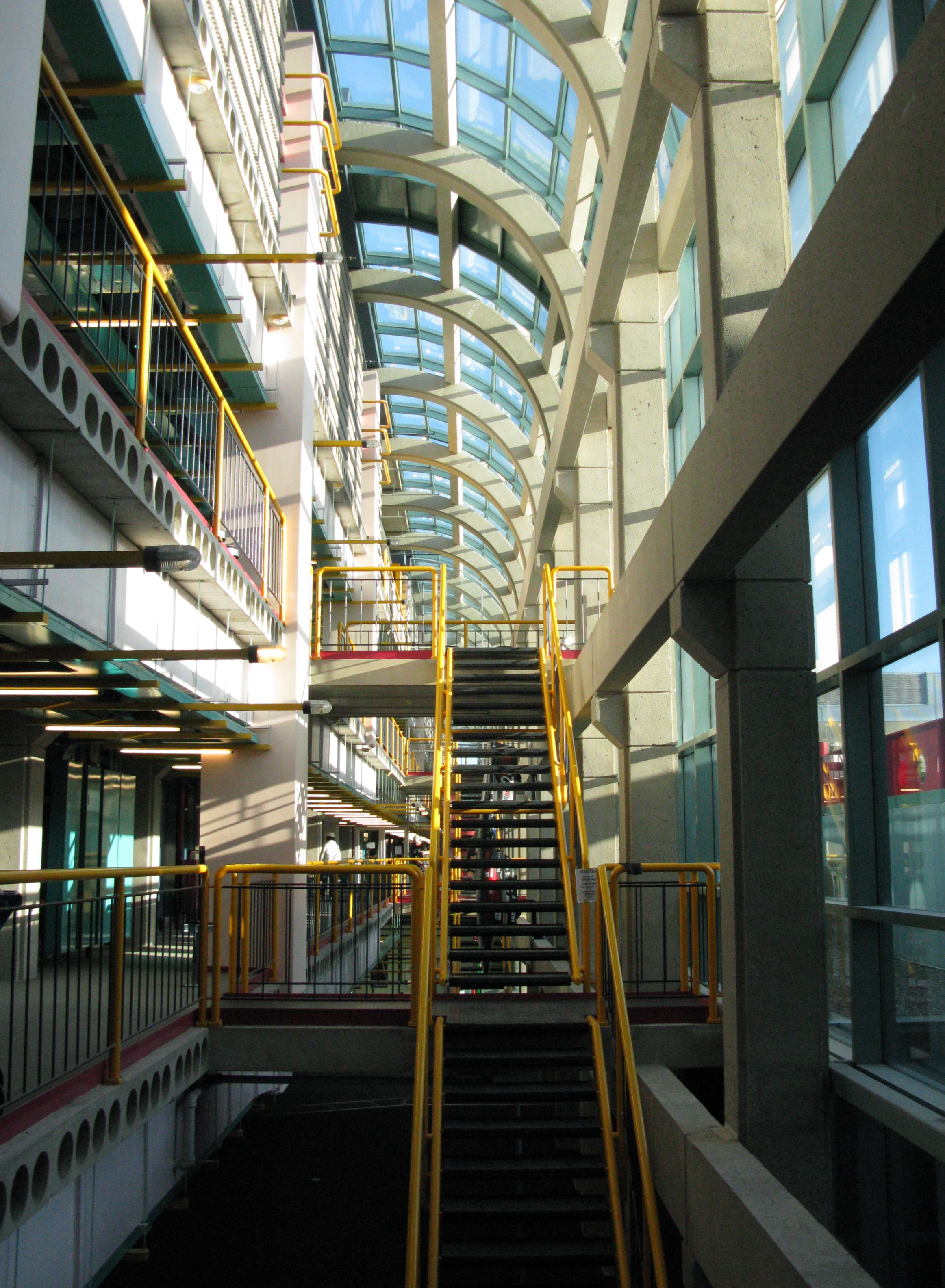 Interior of William G. Davis Centre at the University of Waterloo in Waterloo, Ontario, Canada. Viewed from second floor.